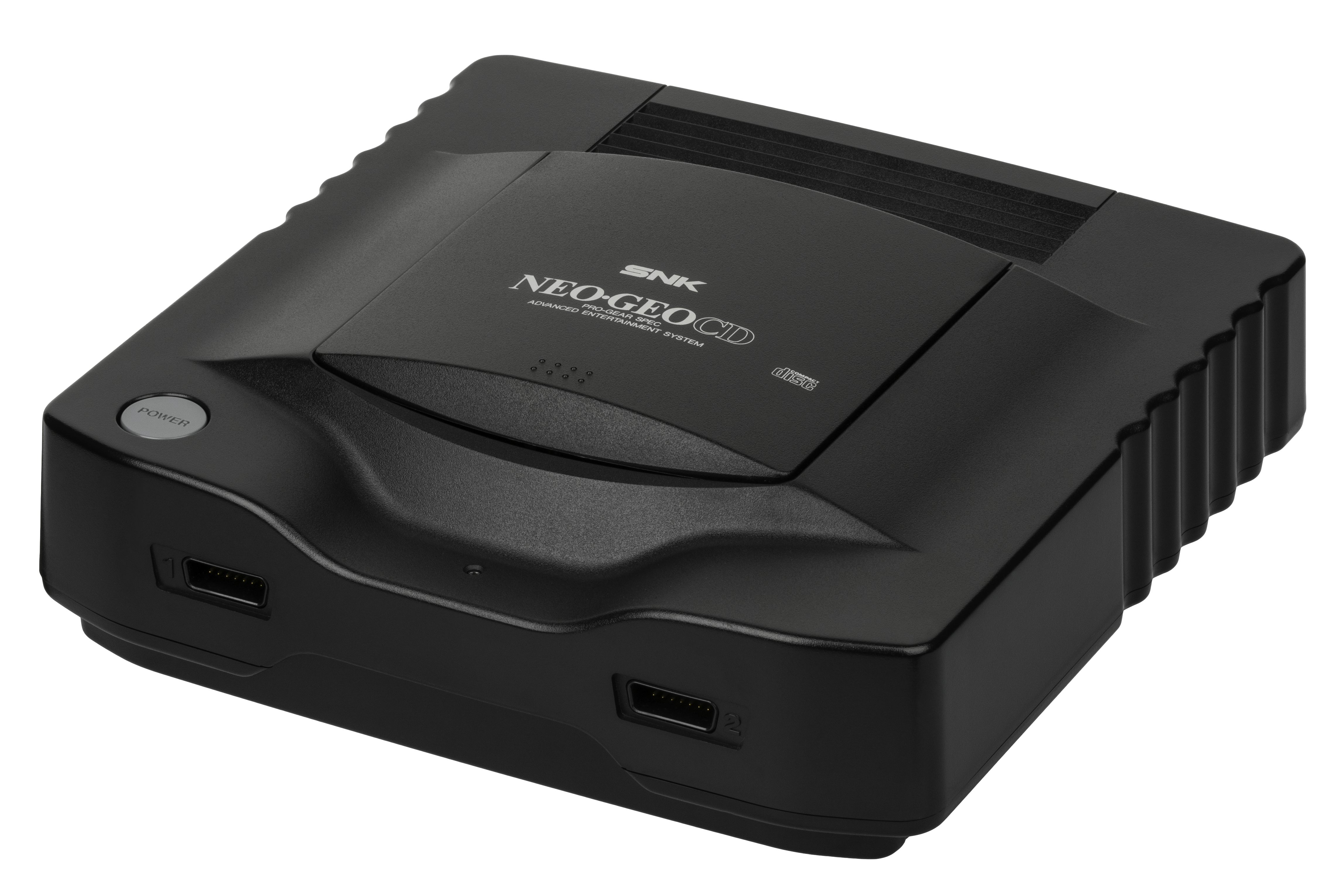 The Neo Geo CD, a video game console released by SNK in Japan in 1994. This is the top loader model, the most common version and the only one that saw a worldwide release. The Neo Geo CD was a conversion of the original Neo Geo AES hardware into a system with cheaper, more accessible media. The original AES used large cartridges that cost hundreds of dollars each, whereas this model used common CDs that cost pennies to produce. The system also included a more standard gamepad for the pack-in controller.